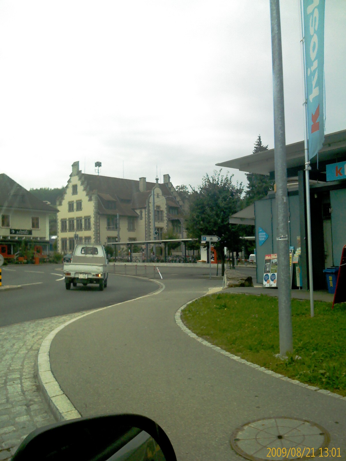 Center of Seon: train station and municipal administration, canton of Aargau, SwitzerlandEsperanto: Centro de Seon: Stacidomo kaj komunuma administrejo, Kantono Argovio, Svislando